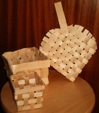 Splint baskets and heart - also made of thich shavings (splint)